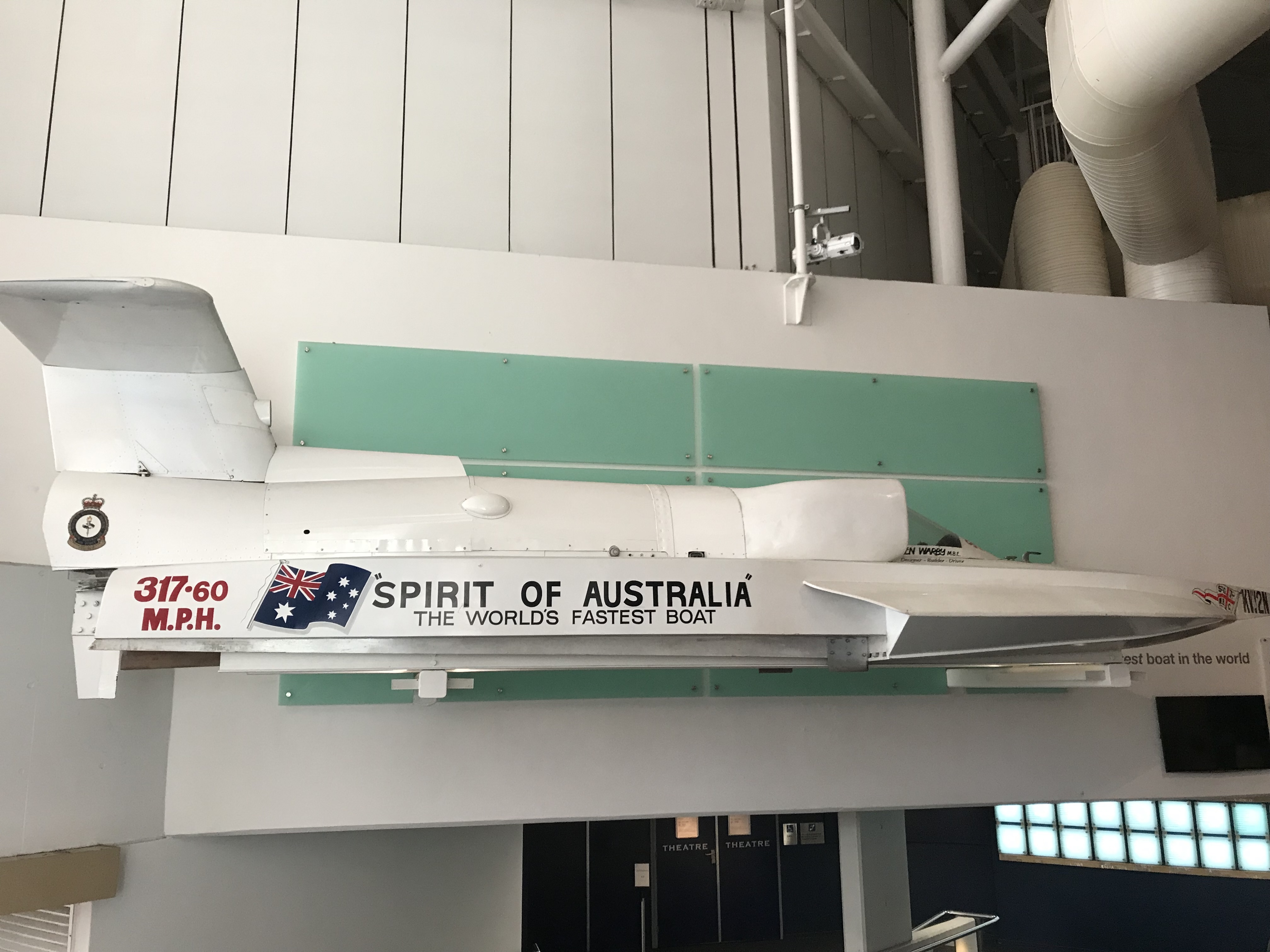 Showcased at the Australian Maritime Museum in Sydney